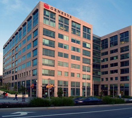 Genesys Telecommunications Laboratories Headquarters